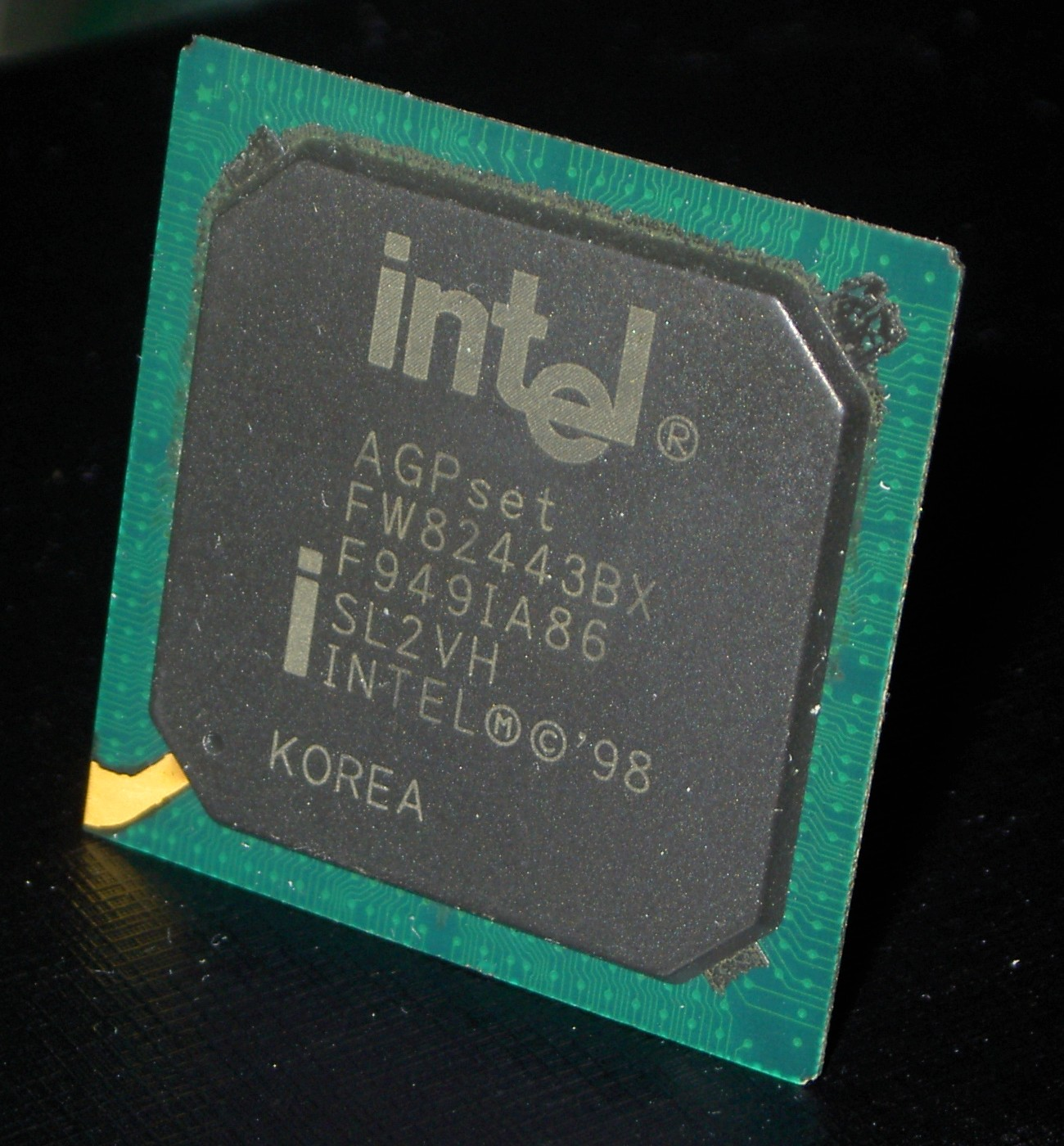 Intel 82443BX AGPset Nprth Bridge